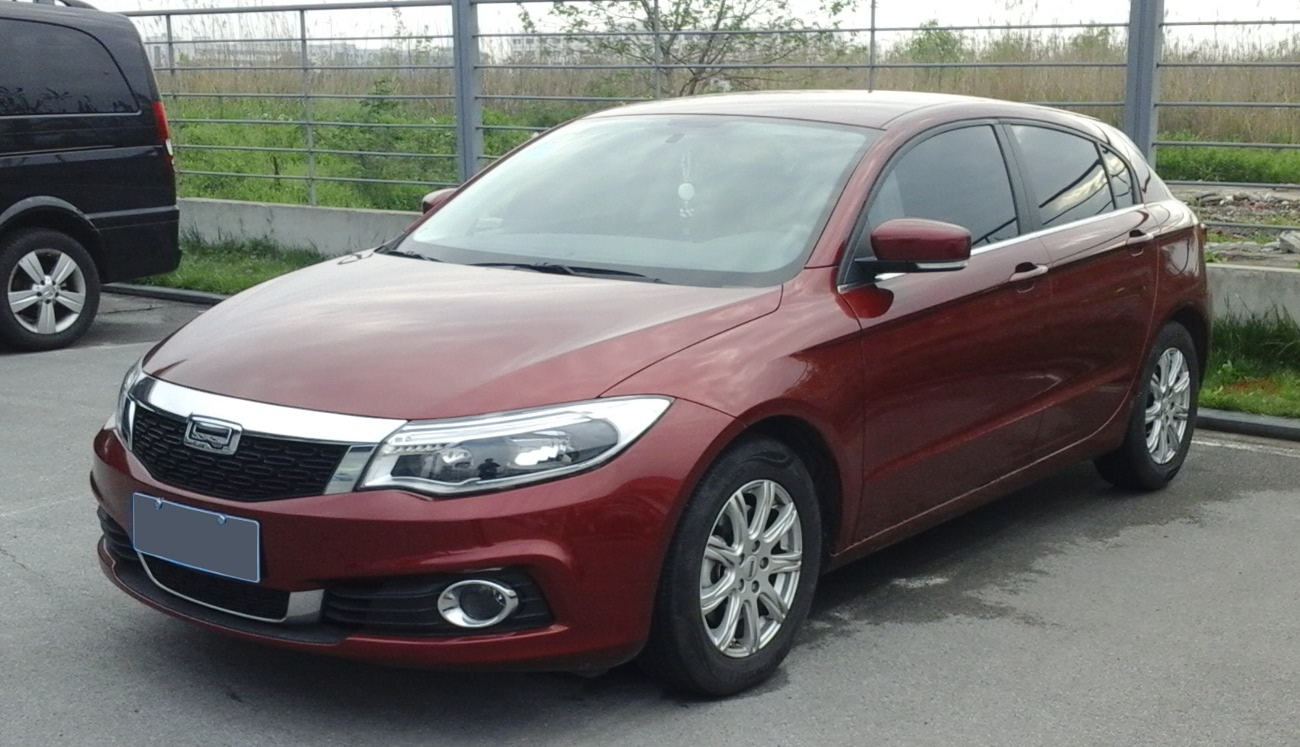 Qoros 3 hatch photographed in Shanghai, China.